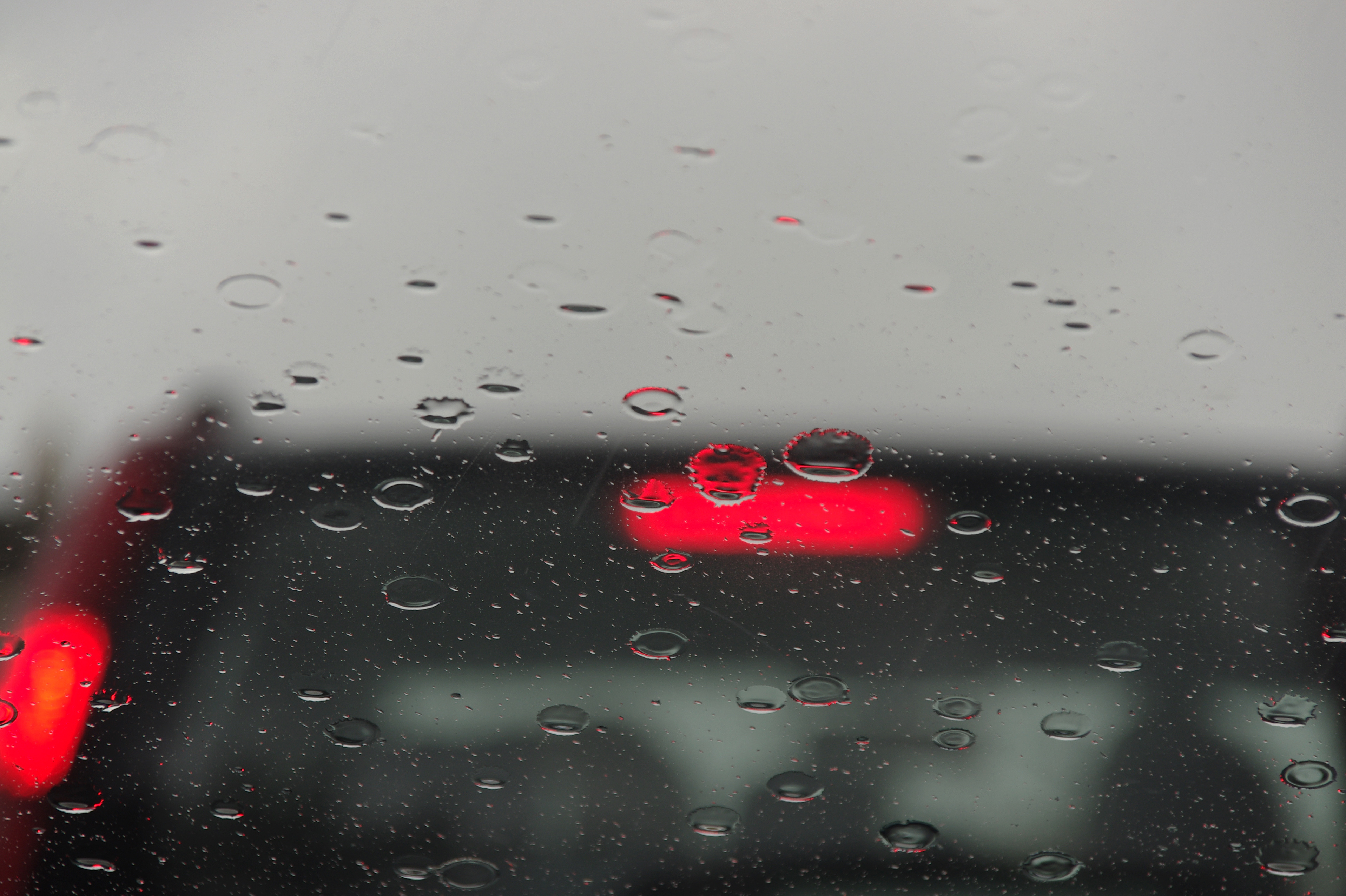 Rain on the windscreen of a car driving on the A170 in Thirsk.